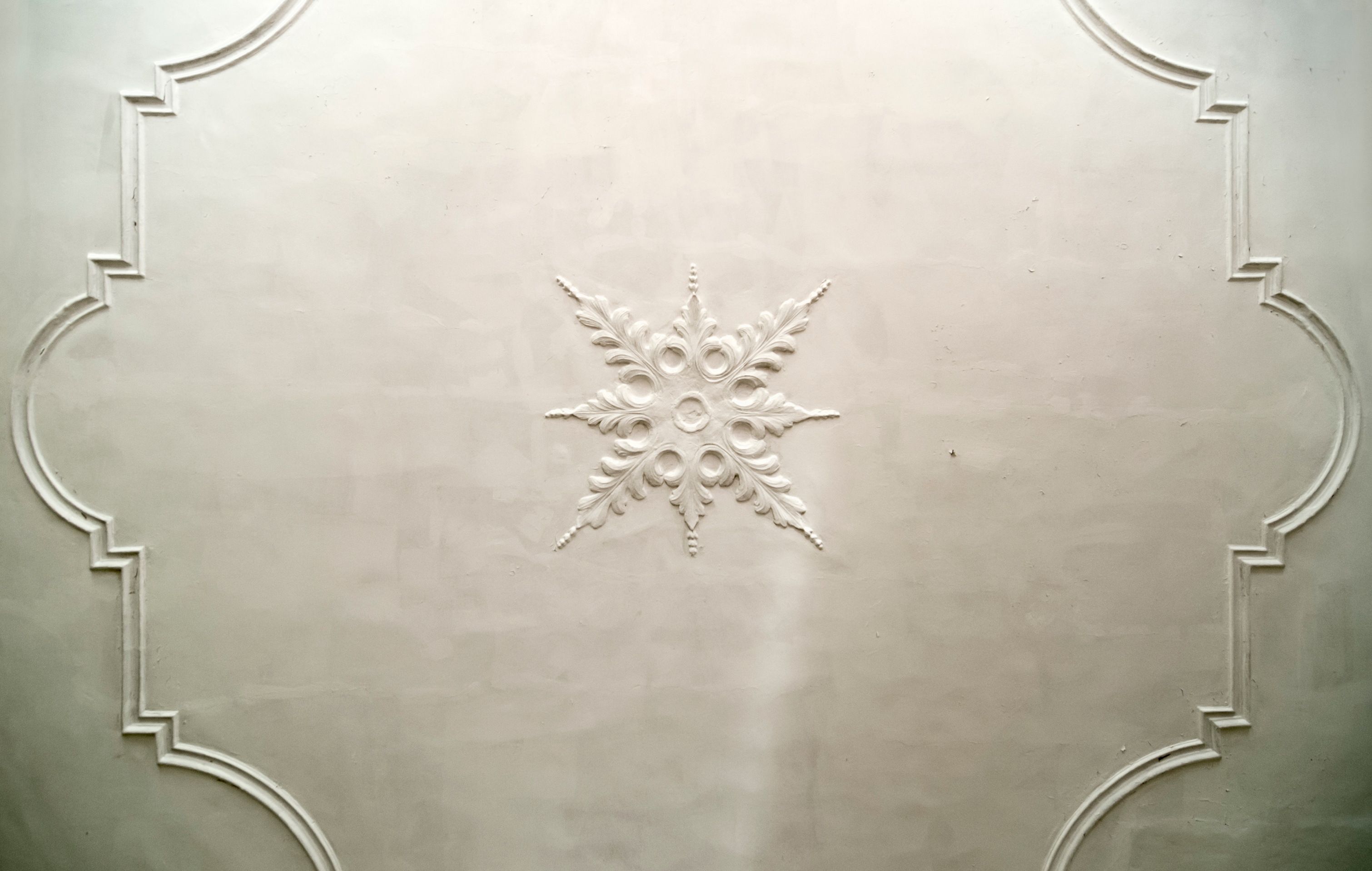 Stucco decoration in Sargvere Manor house hall ceiling